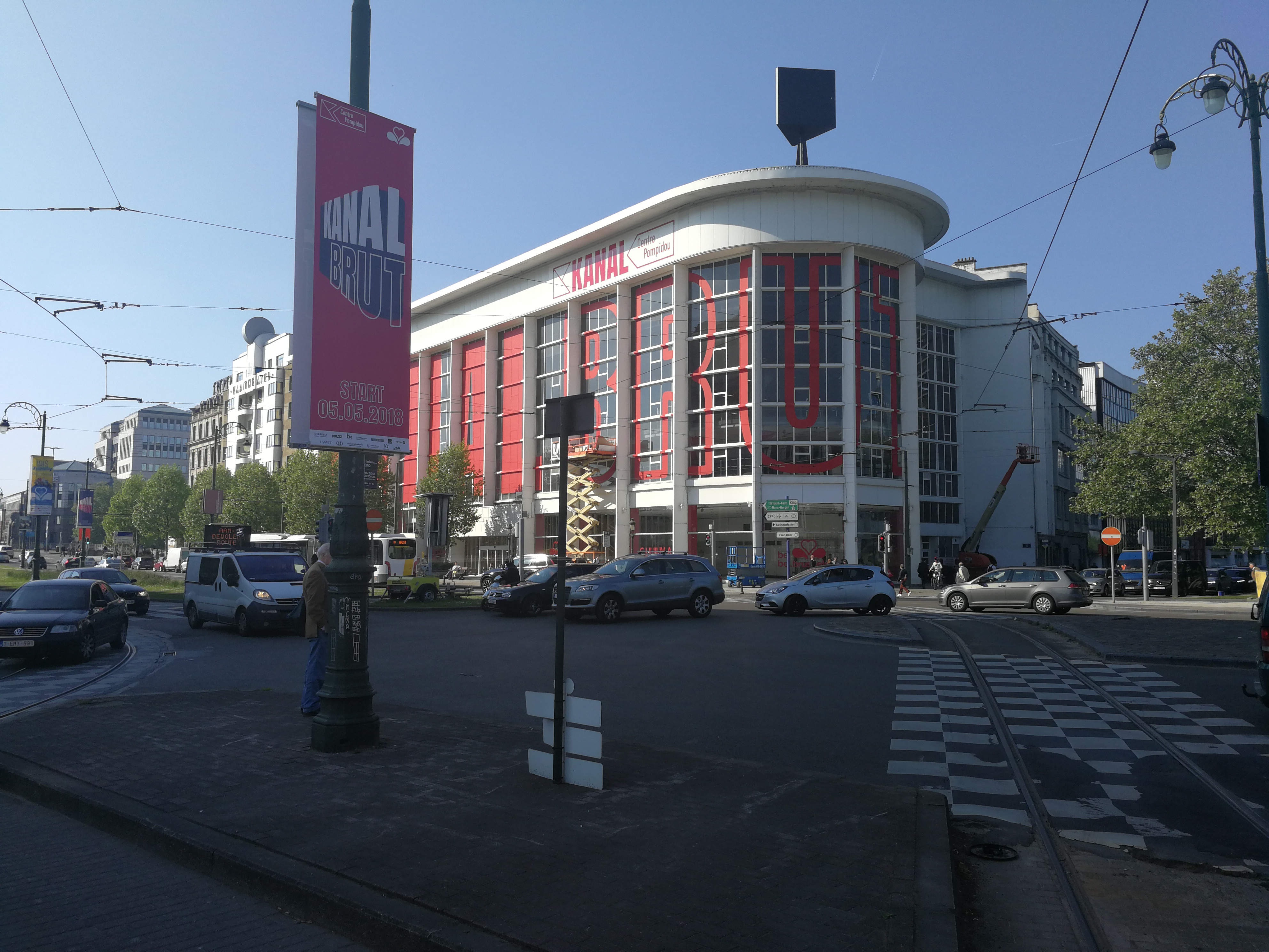 View of the Citroën Building from the Place de l'Yser (Brussels) : the facade is covered with red letters, KANAL BRUT.